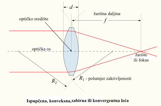 Convex lens, a figure with serbo-croatian labels